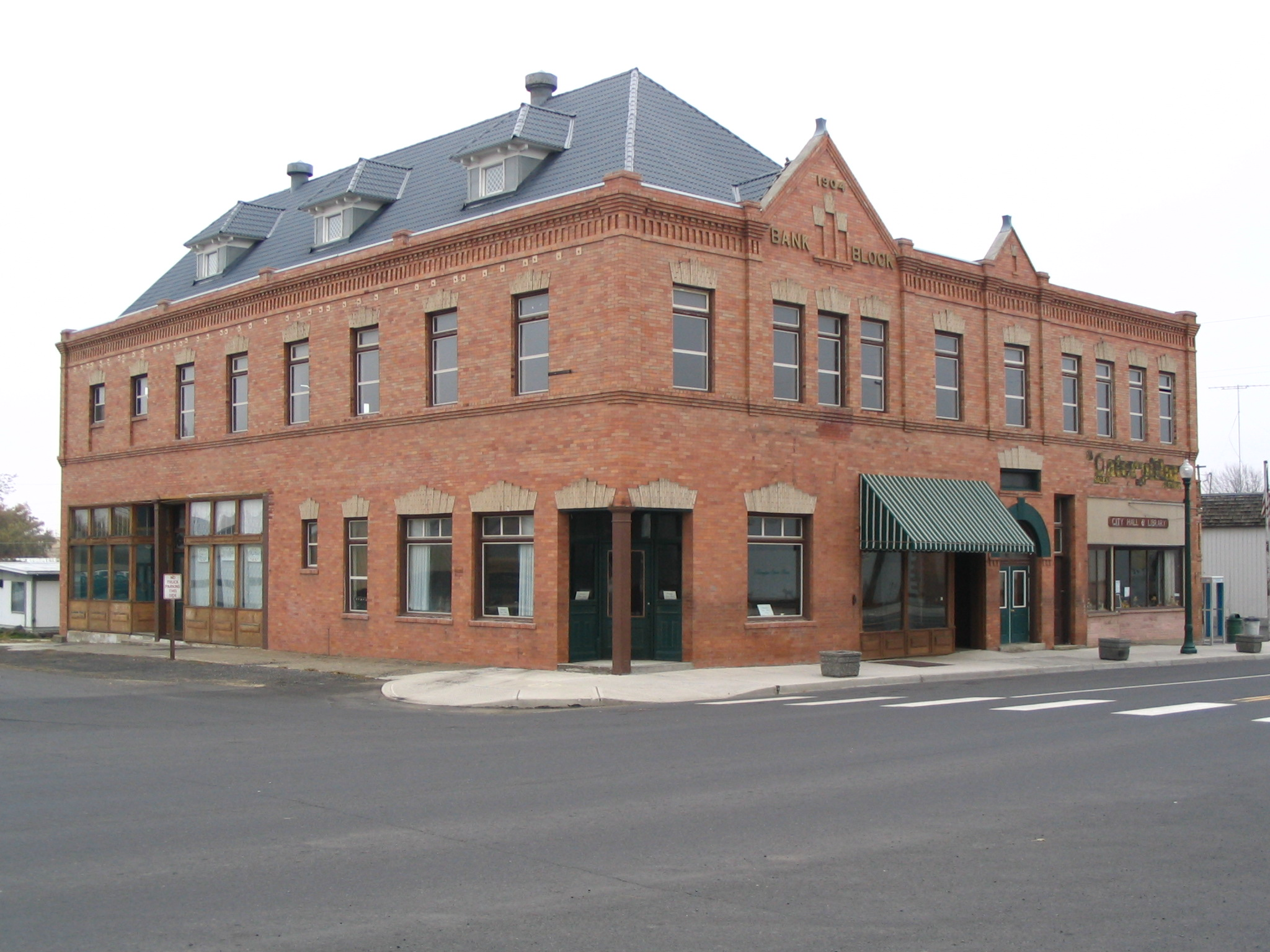 Harrington Bank Block and Opera House, Harrington, Washington. This building is listed on the National Register of Historic Places.